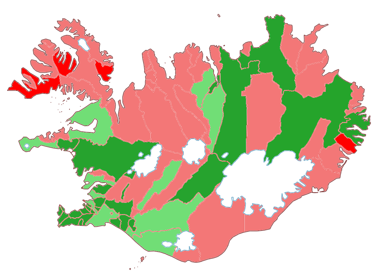 This map shows the changes in population of the municipalities of Iceland in the ten year period 2002-2012. The dark red municipalities have lost over 20% of their population in this period while the lighter red have experienced less severe depopulation. The green municipalities experienced a growth in population, the growth was lower than the total growth of the nation in the period (11.58%) in the light green ones and higher than the national rate in the dark green ones.